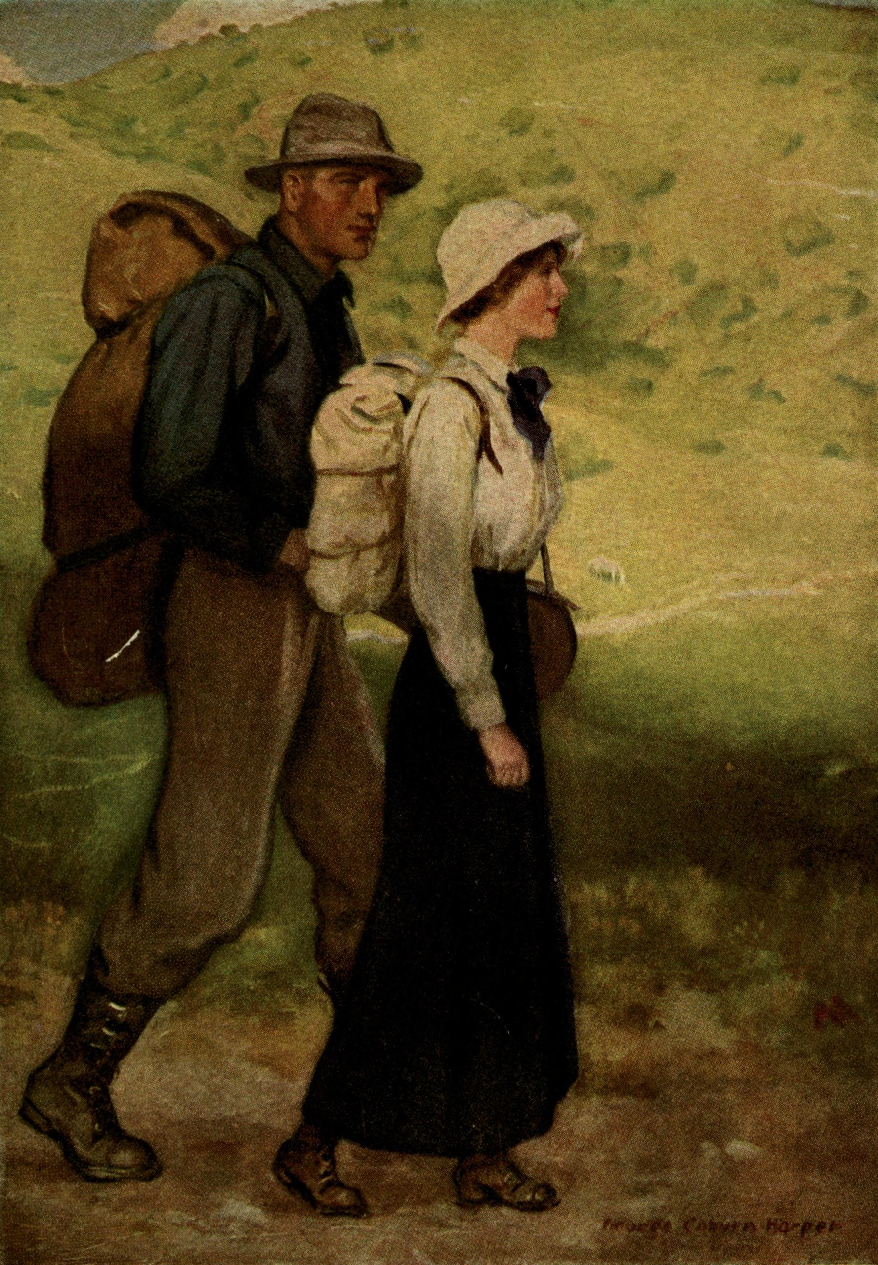 Frontispiece illustration to the 1913 first edition of The Valley of the Moon by Jack London